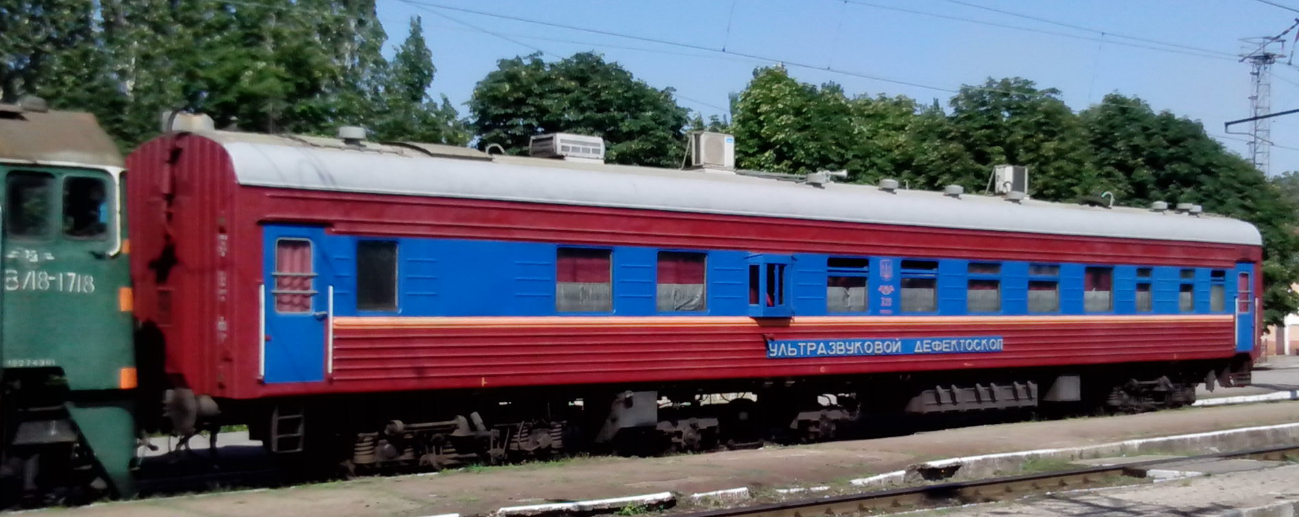 Rail inspection car